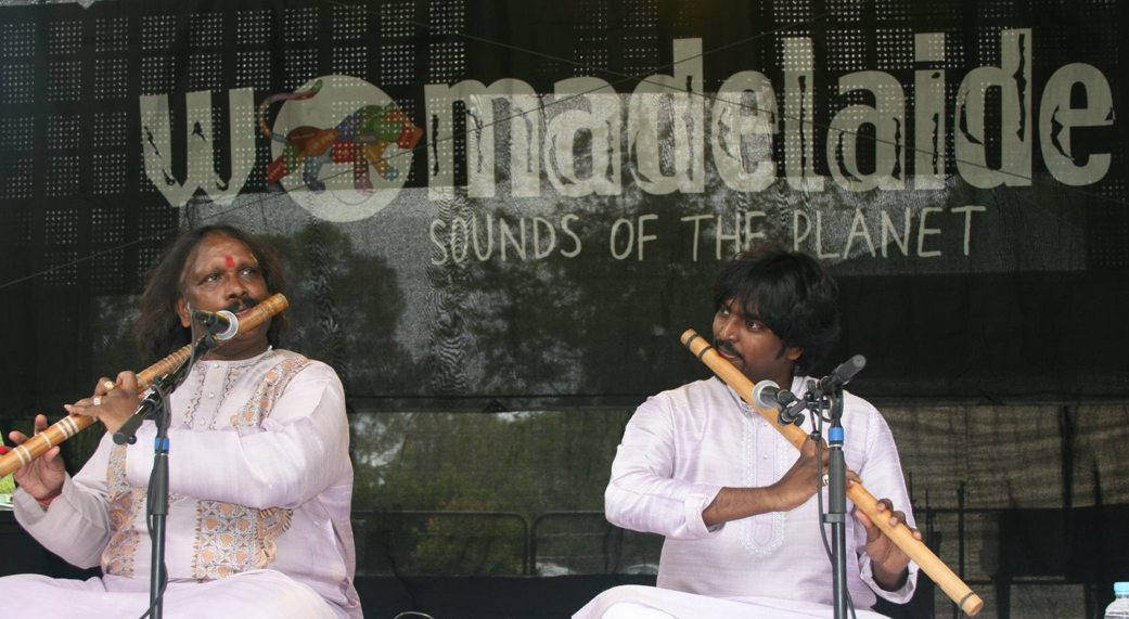 Rajendra Prasanna playing at Womad festival, Australia with his son Rishab Prasanna